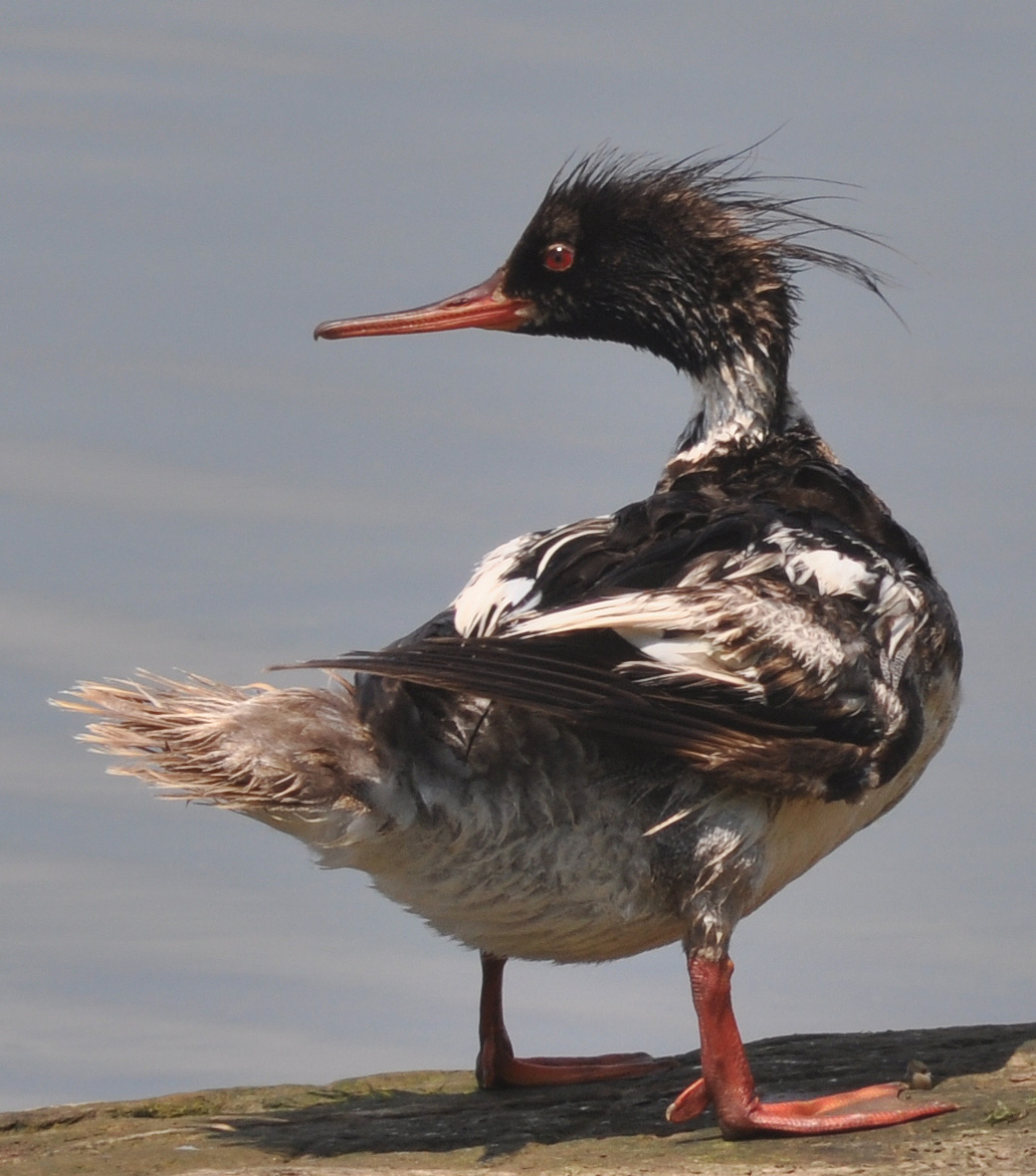 Mergus serrator, Occoquan Bay NWR, Woodbridge, Virginia, USA